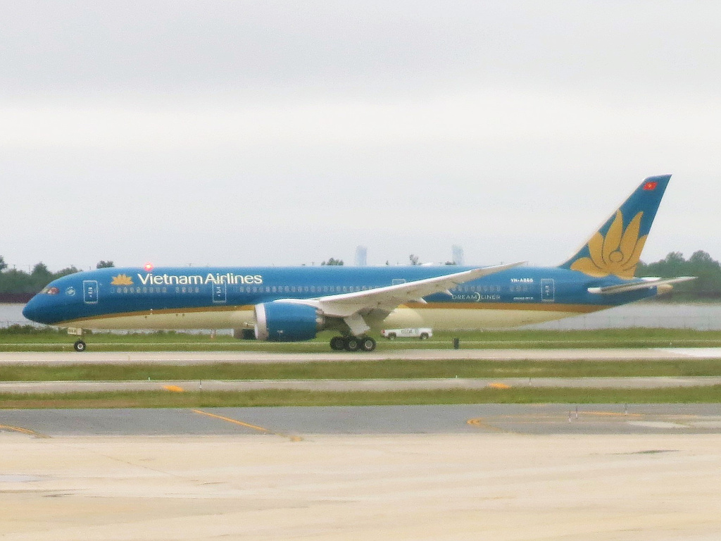 A Vietnam Airlines Boeing 787-9 Dreamliner, operating as Flight 1 (VN1/HVN1), a designation for any aircraft carrying the Prime Minister of Vietnam, is rolling along Runway 13R at John F. Kennedy International Airport to depart for a trip to Andrews Air Force Base ahead of a scheduled meeting with the President of the United States. Vietnam Airlines does not serve the Americas with any scheduled service, and as such, its presence in New York City is solely as a transport for the Nguyễn Xuân Phúc, and other members of his delegation.